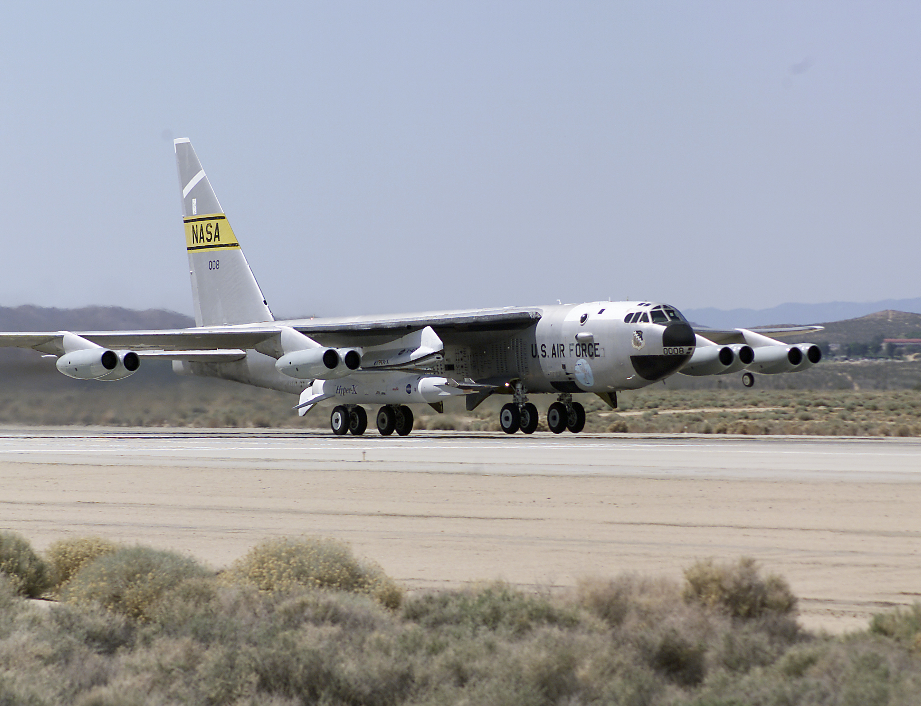 B-52 Stratofortress carries the experimental UAV Boeing X-43